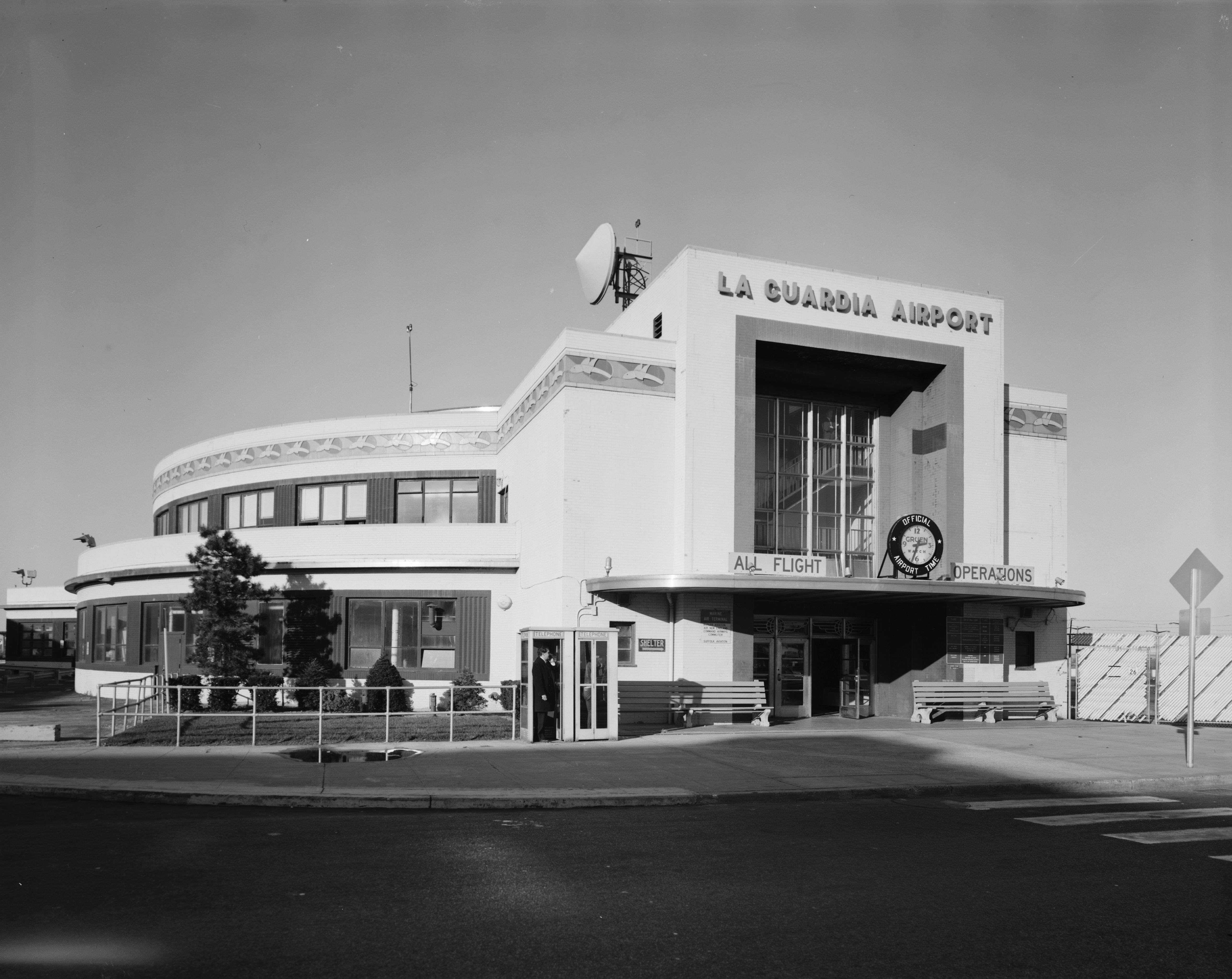 The Marine Air Terminal at LaGuardia Airport, built in 1940 in Jackson Heights, Queens. New York Municipal Airport, Marine Air Terminal, Grand Central Parkway at Ninety-fourth Street, Jackson Heights, Queens County, NY Image (1974): HAER—Historic American Engineering Record images of New York.